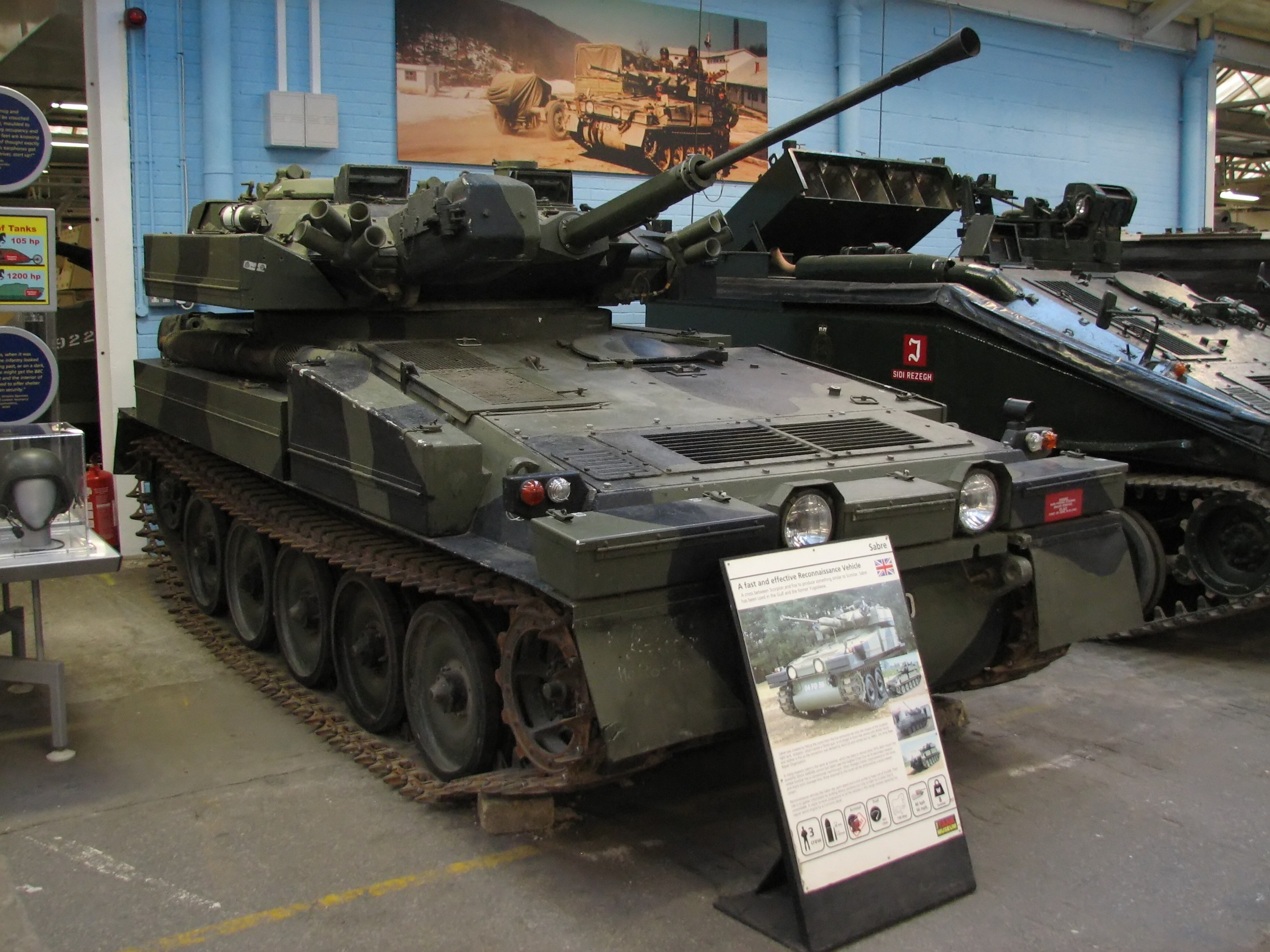 British Sabre light tank at Bovington Tank Museum